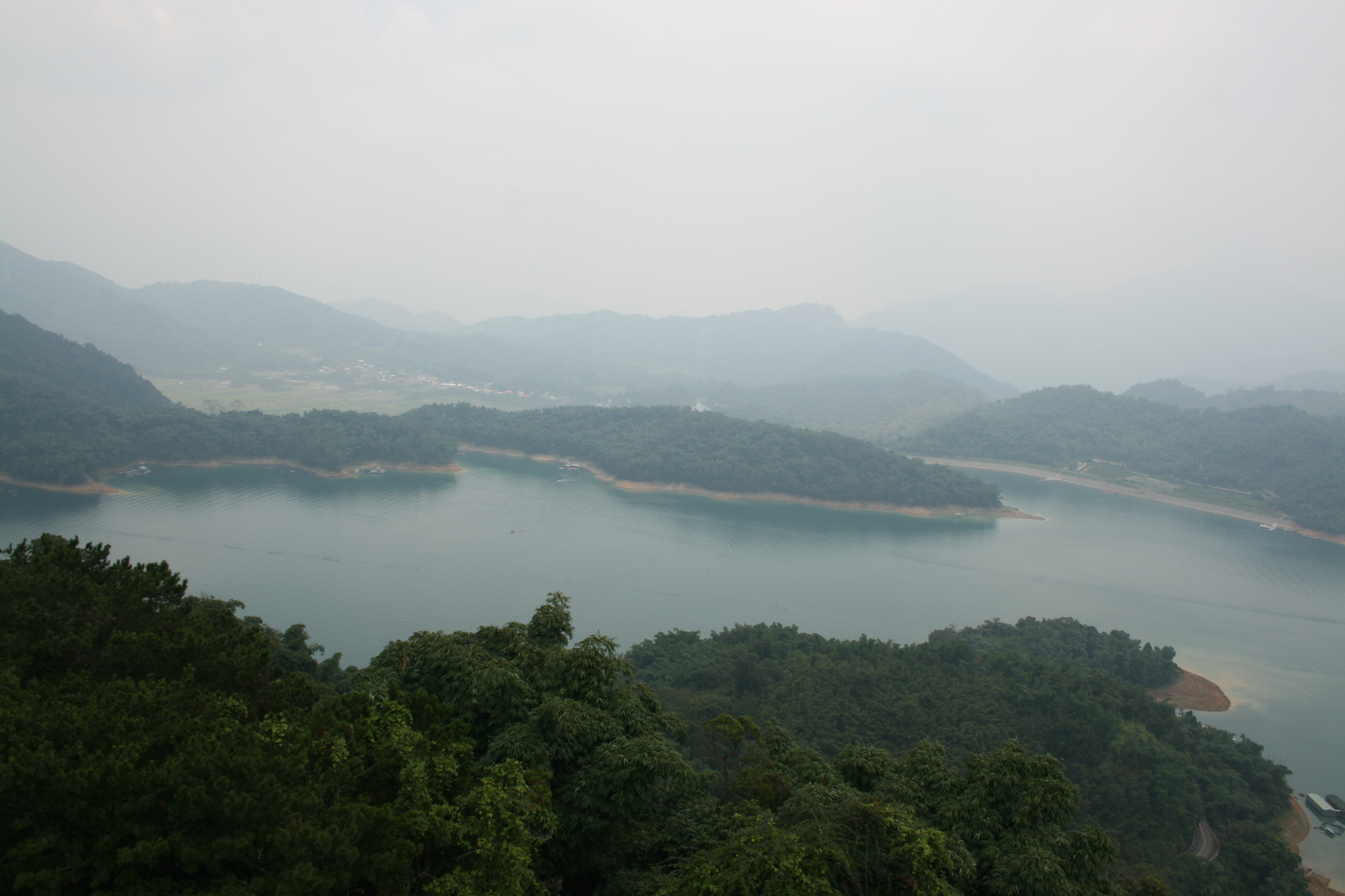 The Moon Lake of the Sun Moon Lake, taken from the Tsen Pagoda 由慈恩塔上拍攝的日月潭月潭